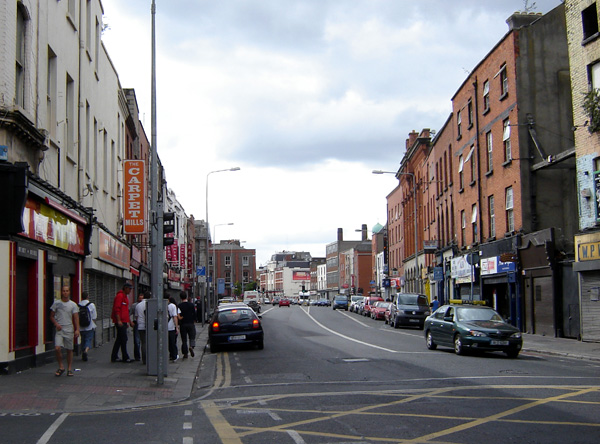 Photograph of Thomas Street, Dublin, taken by me.